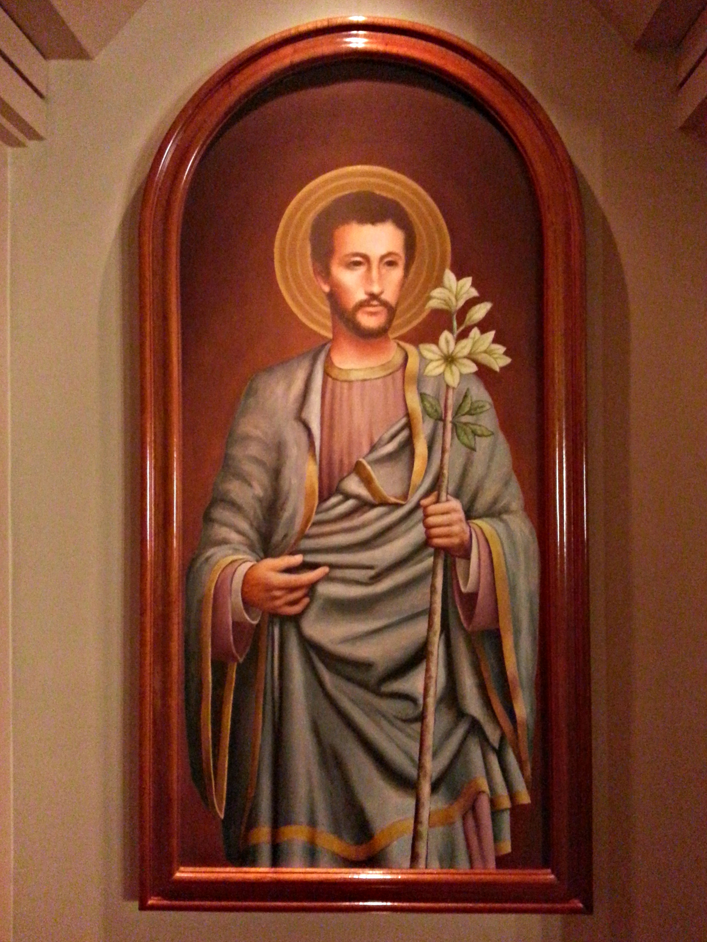 Saint Joseph, portrayed as a young man. Oratory of the Hospital Universitario Austral, Pilar Partido, Argentina. Some documentary iconographs picture St. Joseph as a beardless young man. St Joseph was pictured as a young man on a gravestone of the third century (catacombs of St Hippolytus, Rome), and also on the sarcophagus of St Celsus in Milan, which belongs to the fourth century. The Fathers of the Church concur that he was a young man. Many later artists make him appear an old man. At the turn of the 16th century, Molanus [De Historia SS. Imaginum et Picturarum. Louvain: Typis Academicis, 1776 (originally published in 1570) , p. 269-73] encouraged a change in St. Joseph’s portraiture. After Molanus, many images abandoned the traditional portrayal of St. Joseph as an old man, balding or graying, and gave the saint a youthful outward appearence.